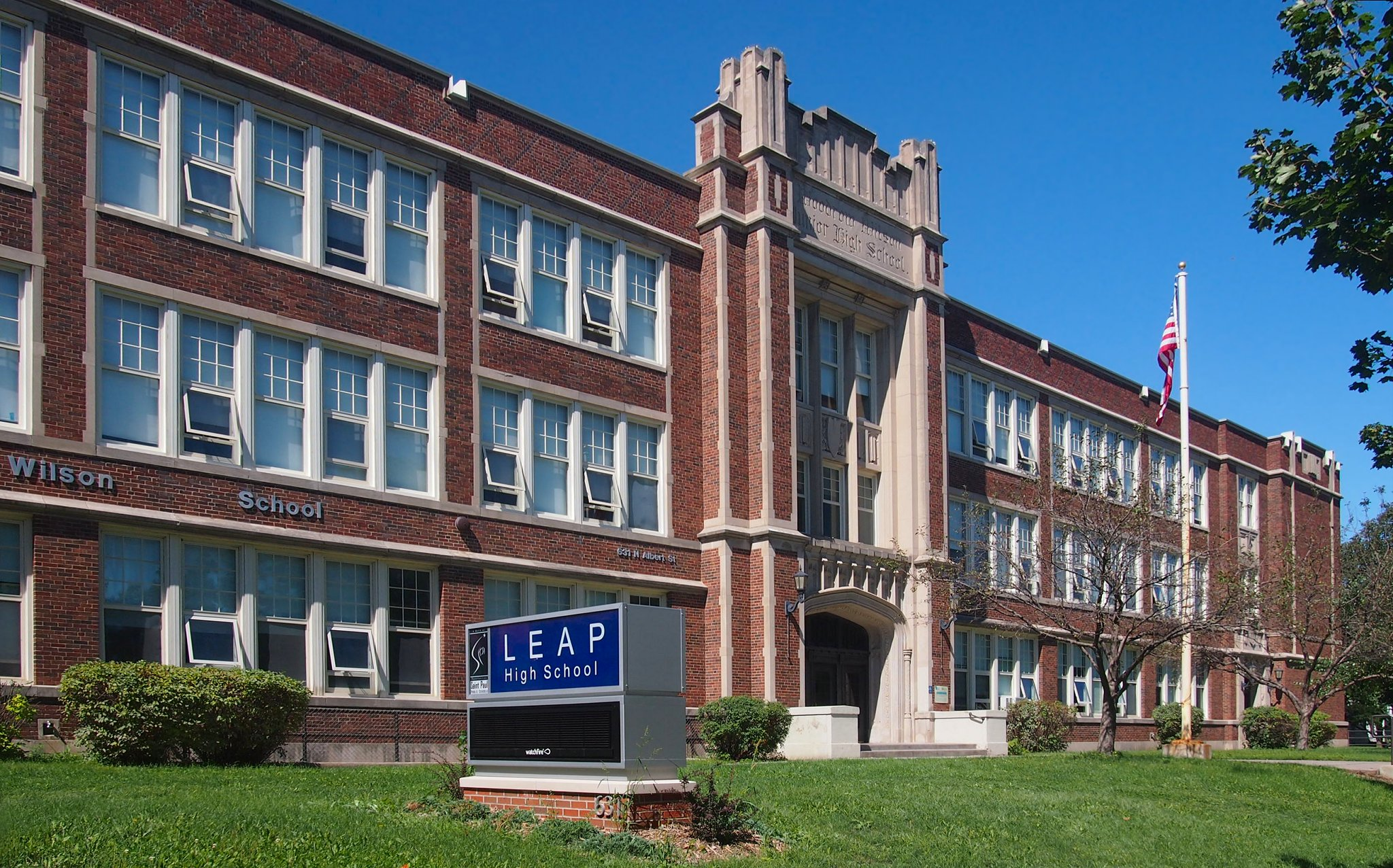 LEAP High School (originally Woodrow Wilson Junior High School), 631 Albert St N, St Paul, Minnesota, USA. Viewed from the southeast.